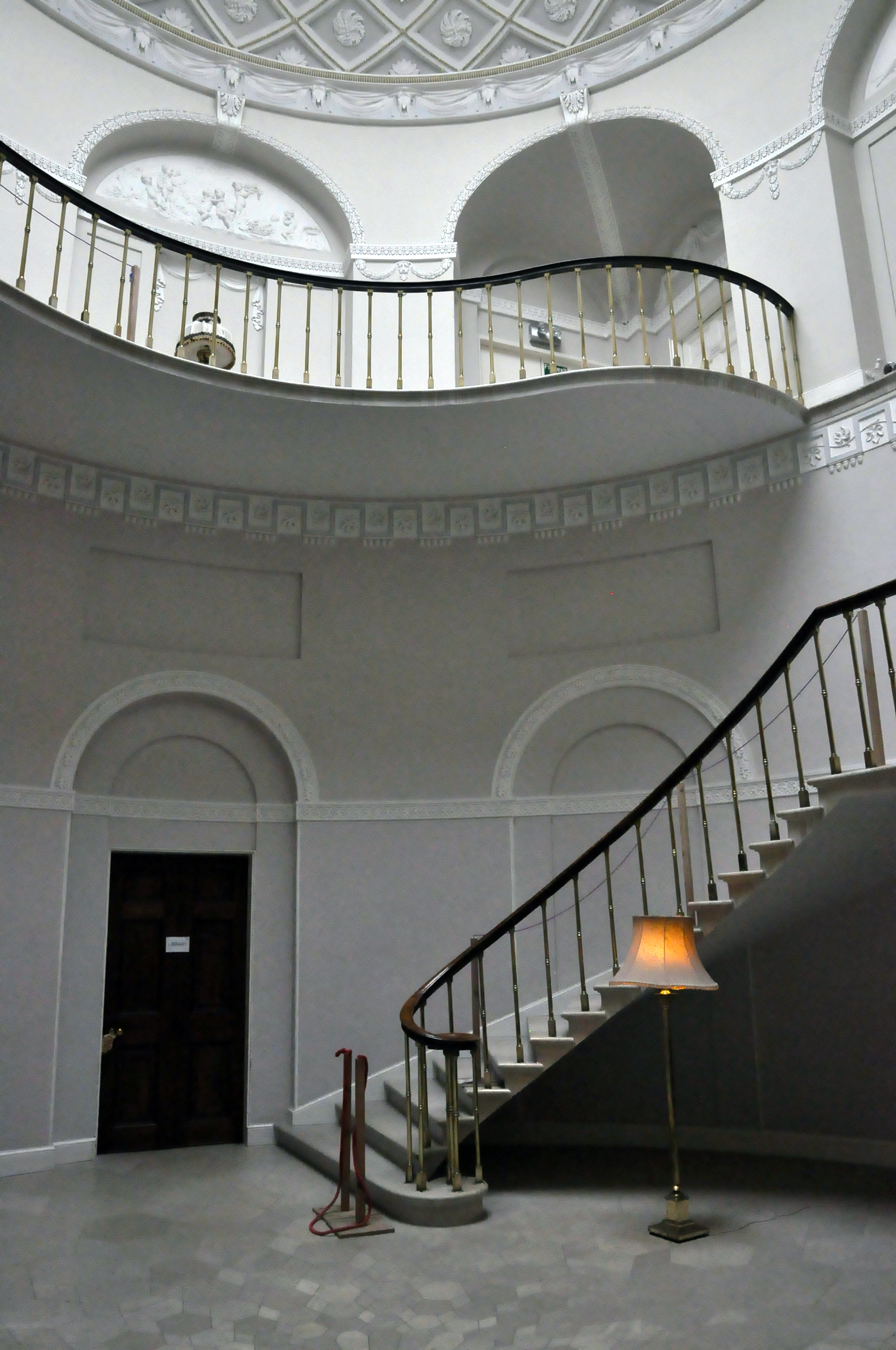 Tullyallen, Townley Hall. Wikidata has entry Q17985011 with data related to this item.